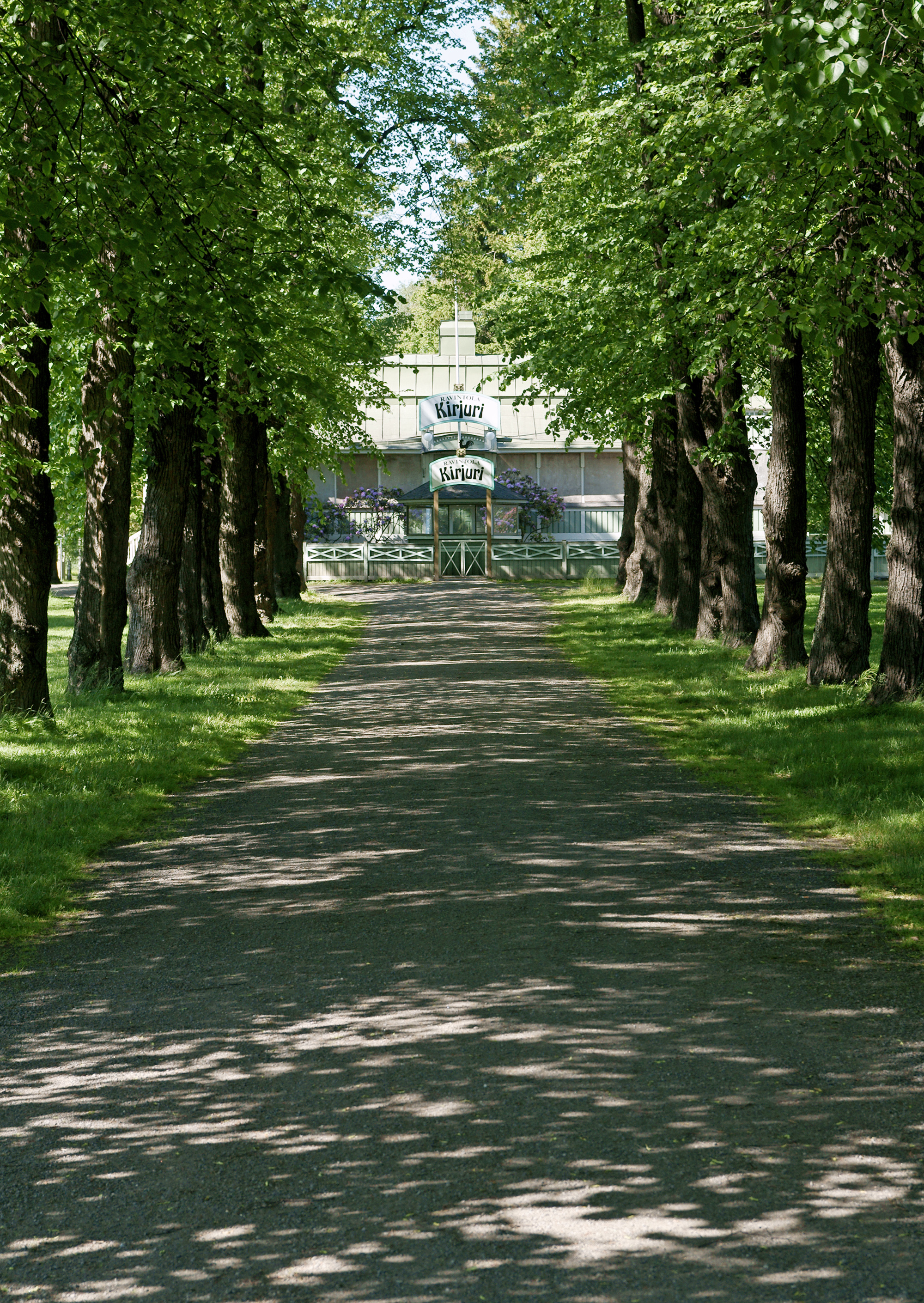 Road to restaurant Kirjuri.